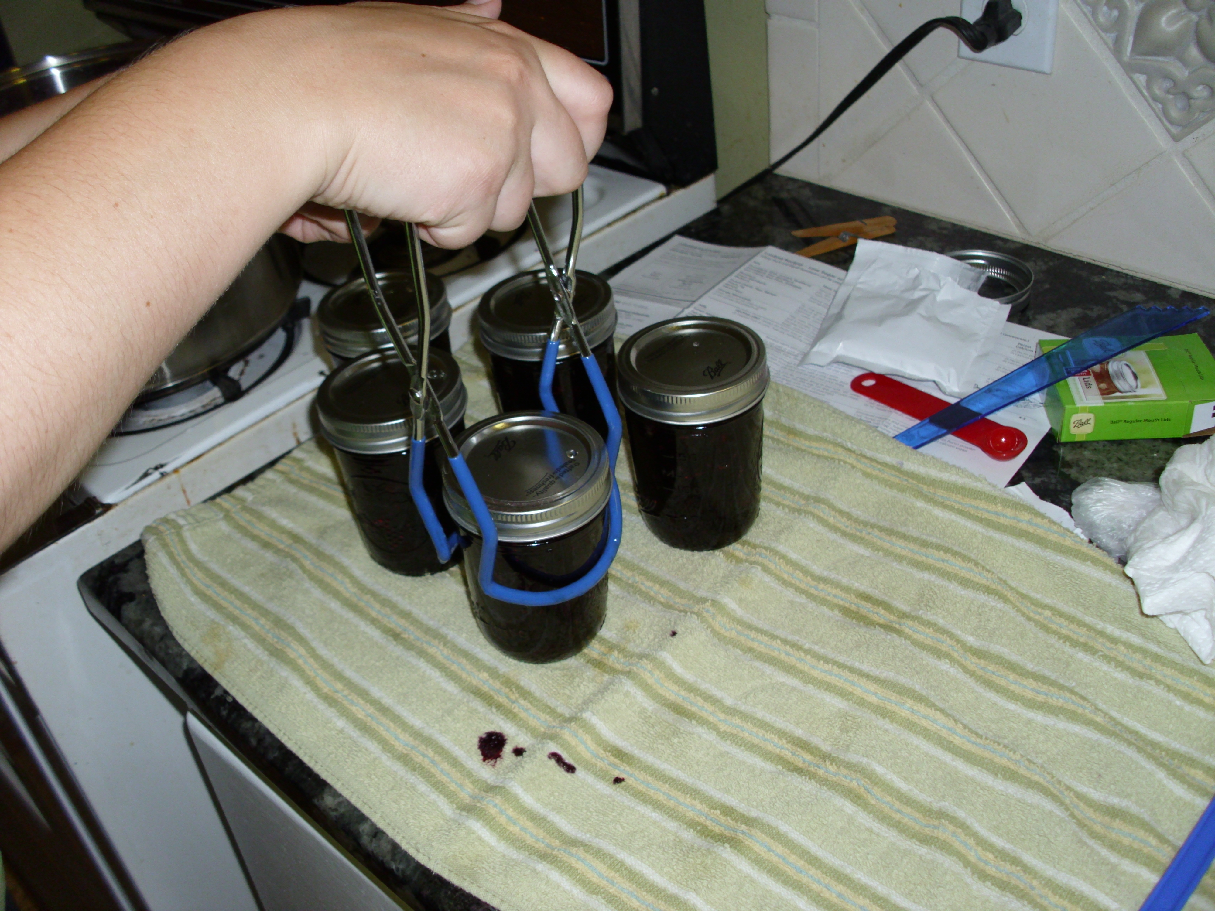 Making blueberry jam. After the lids have been put on, a woman picks up each sterilized jar with tongs, to place it in boiling water.